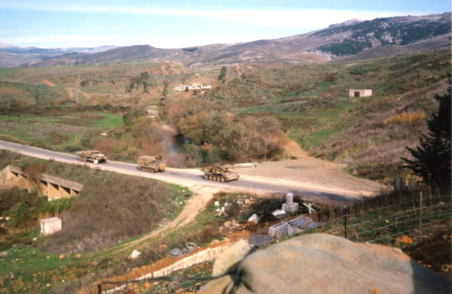 Khardala Bridge in South Lebanon, as seen from UNIFIL position 4-18, Norbatt